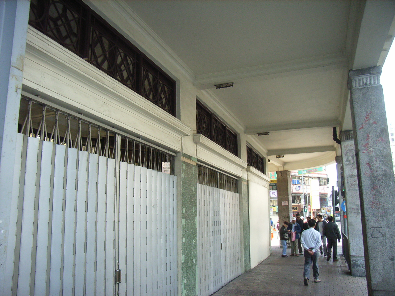 雷生春 位於zh:香港九龍旺角zh:荔枝角道及zh:塘尾道交界 Lui Seng Chun (雷生春) is a historical 4-story building on 119 Lai Chi Kok Road, Hong Kong. Photo by User:OLAMB.